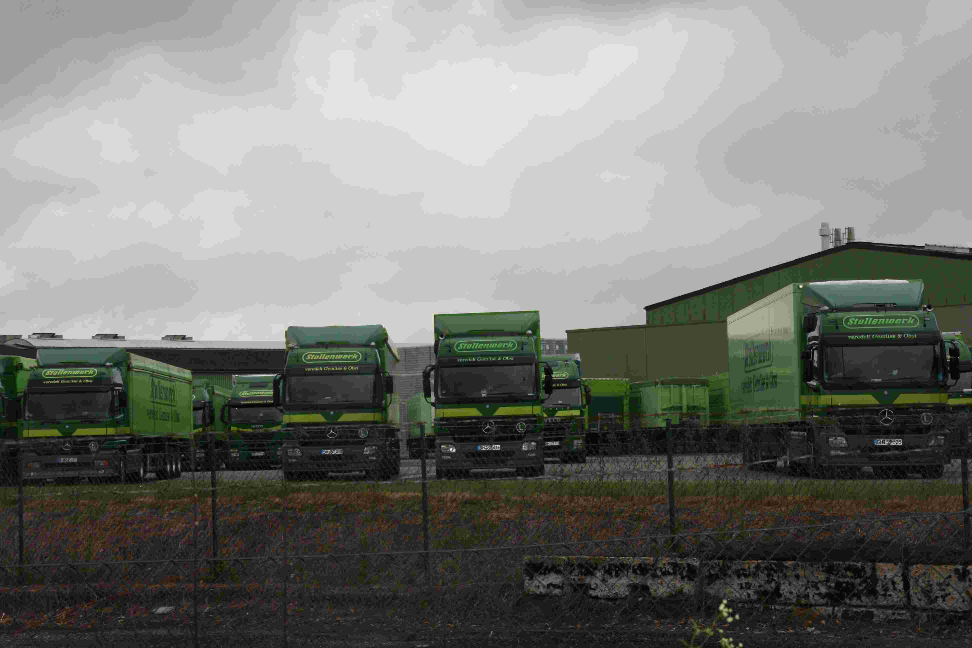 Ein Teil der Firmen-Lkw der Fa. Stollenwerk, Merzenich-Girbelsrath